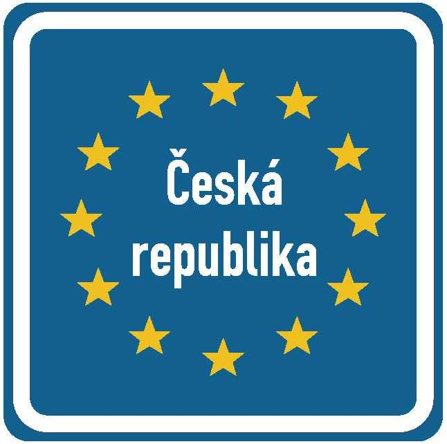 Road sign of the Czech Republic